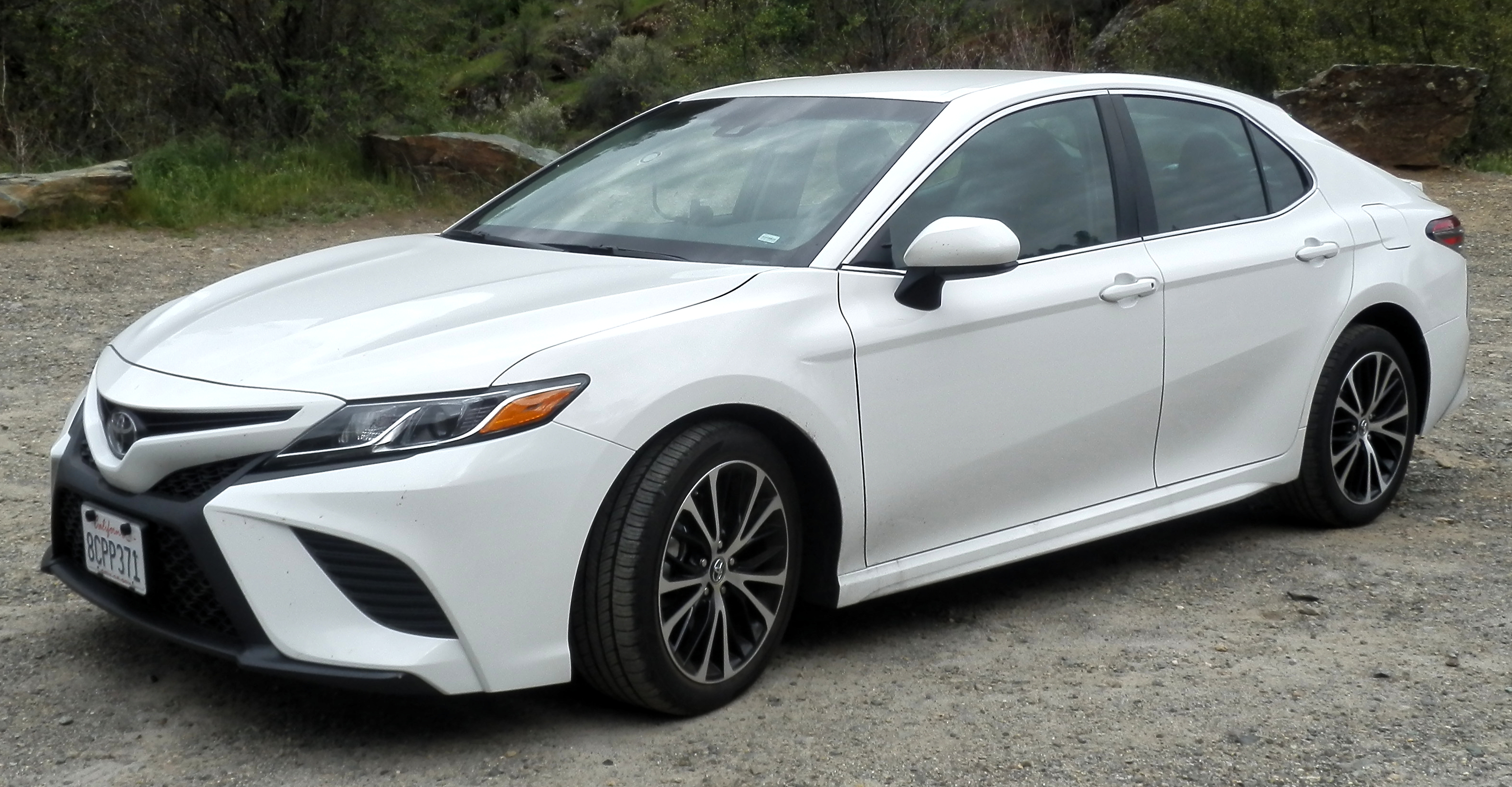 Toyota Camry SE in the Yosemite Nationalpark